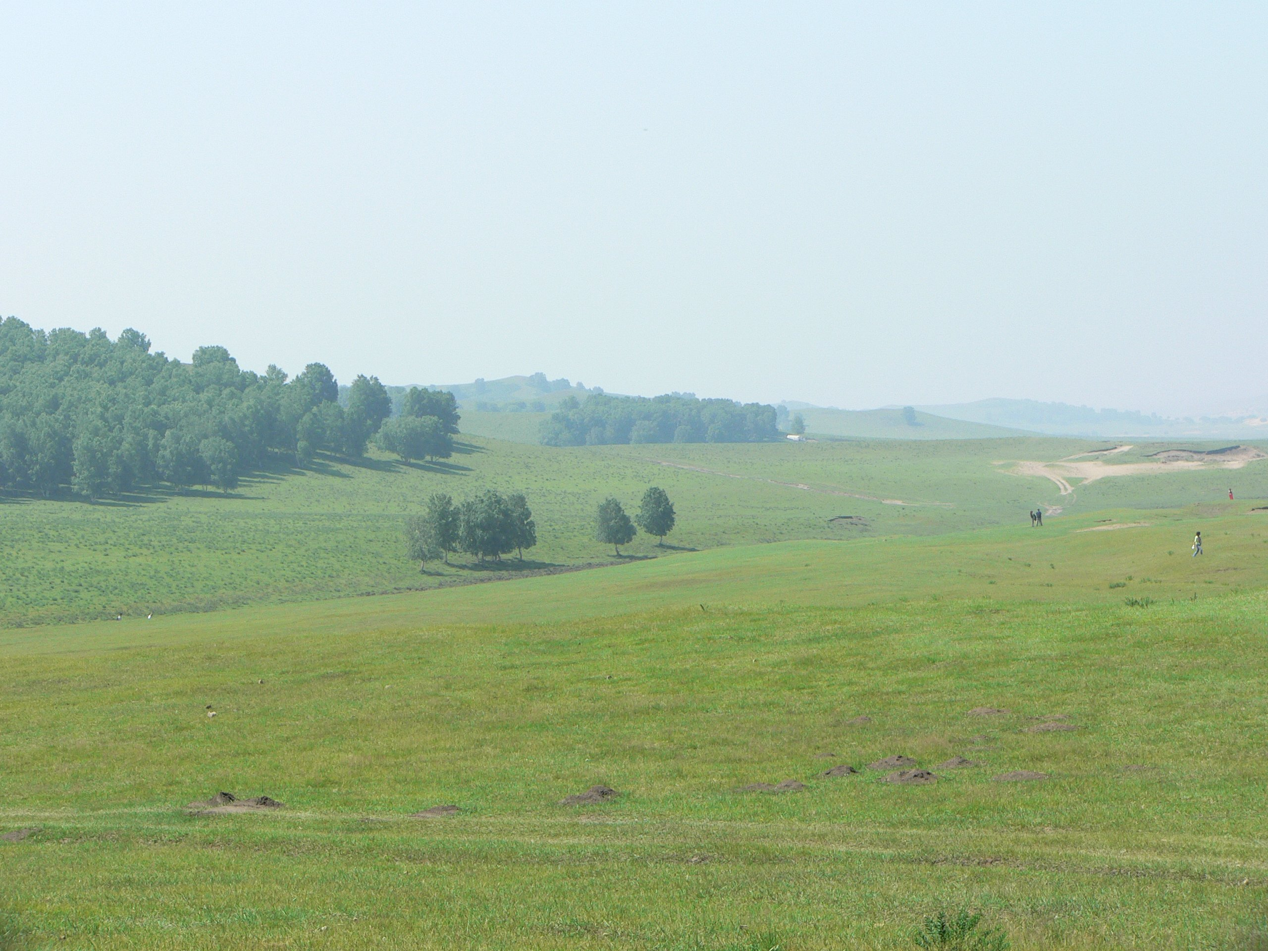 Grasslands of (Chinese) Inner Mongolia